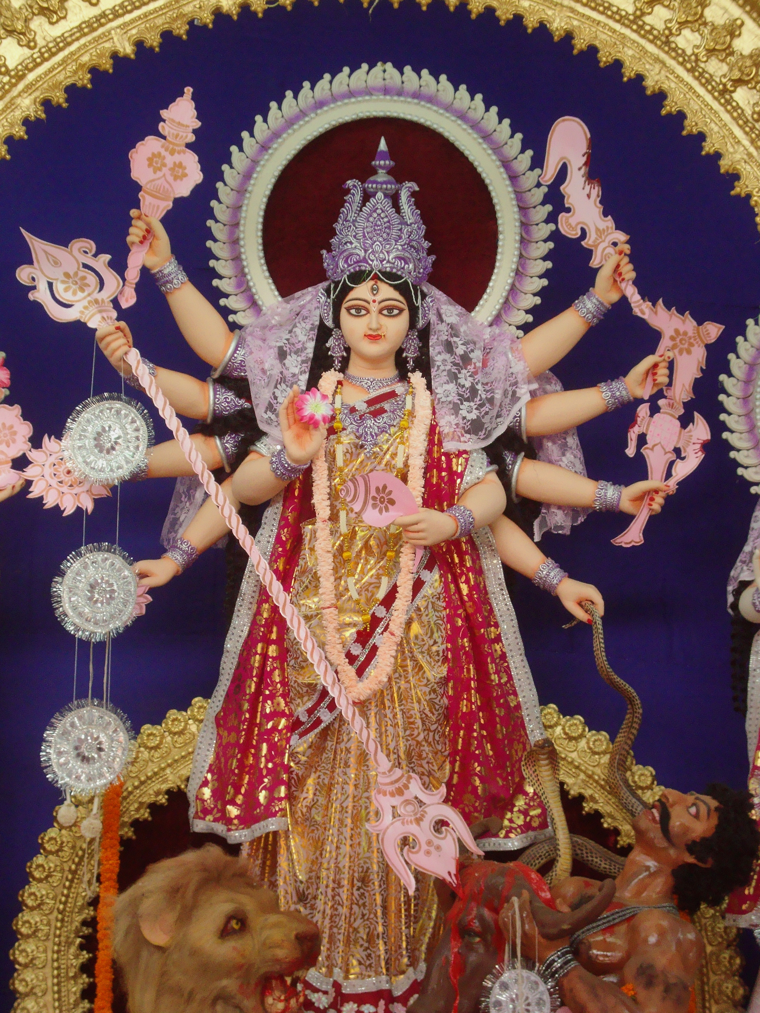 Sculpture of goddess Durga at Durga temple, Burdwan.